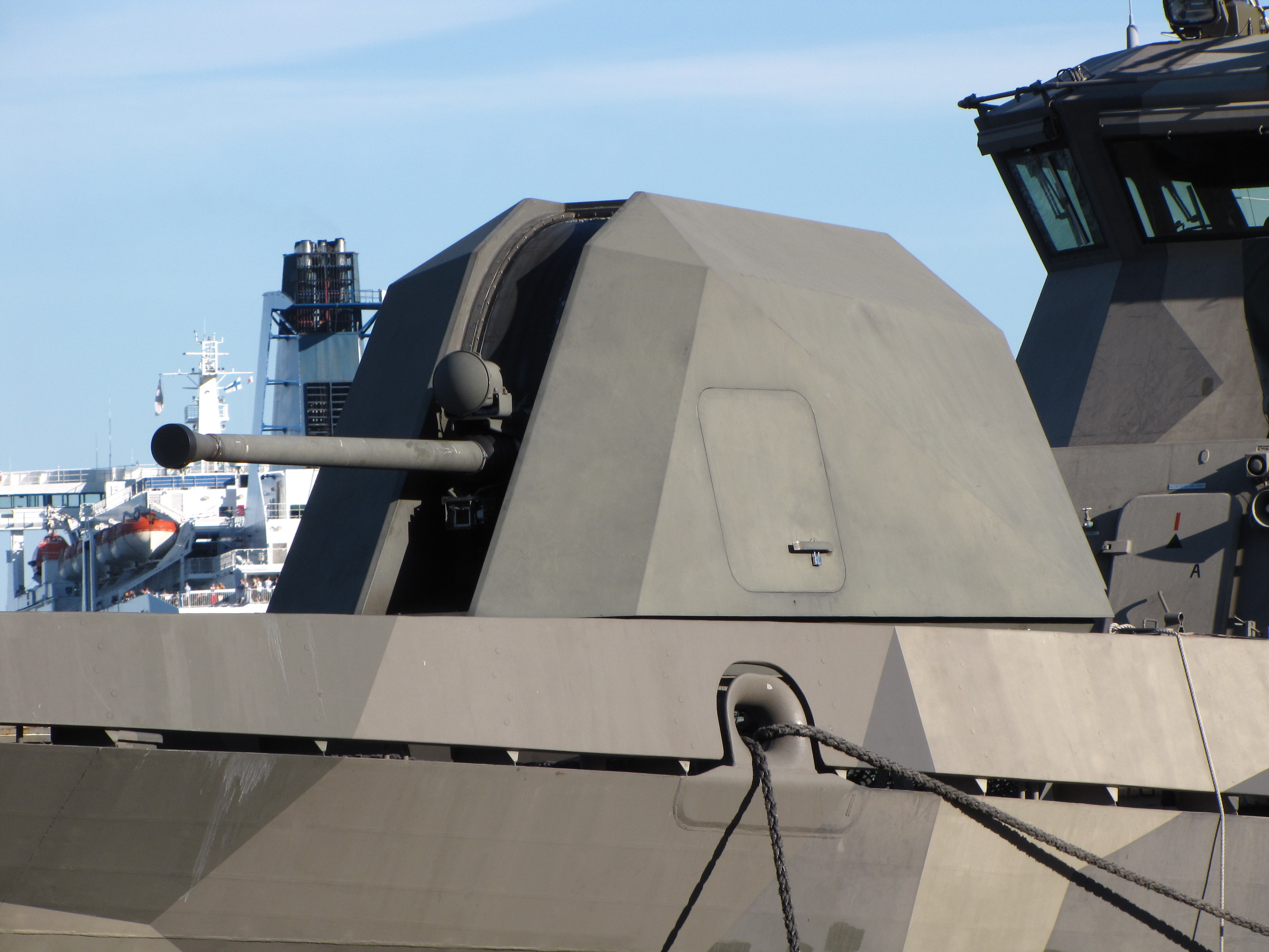 Bow Bofors 57 mm Mk3 gun of the Finnish missile boat Pori (83).